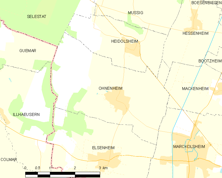 Map of French municipality